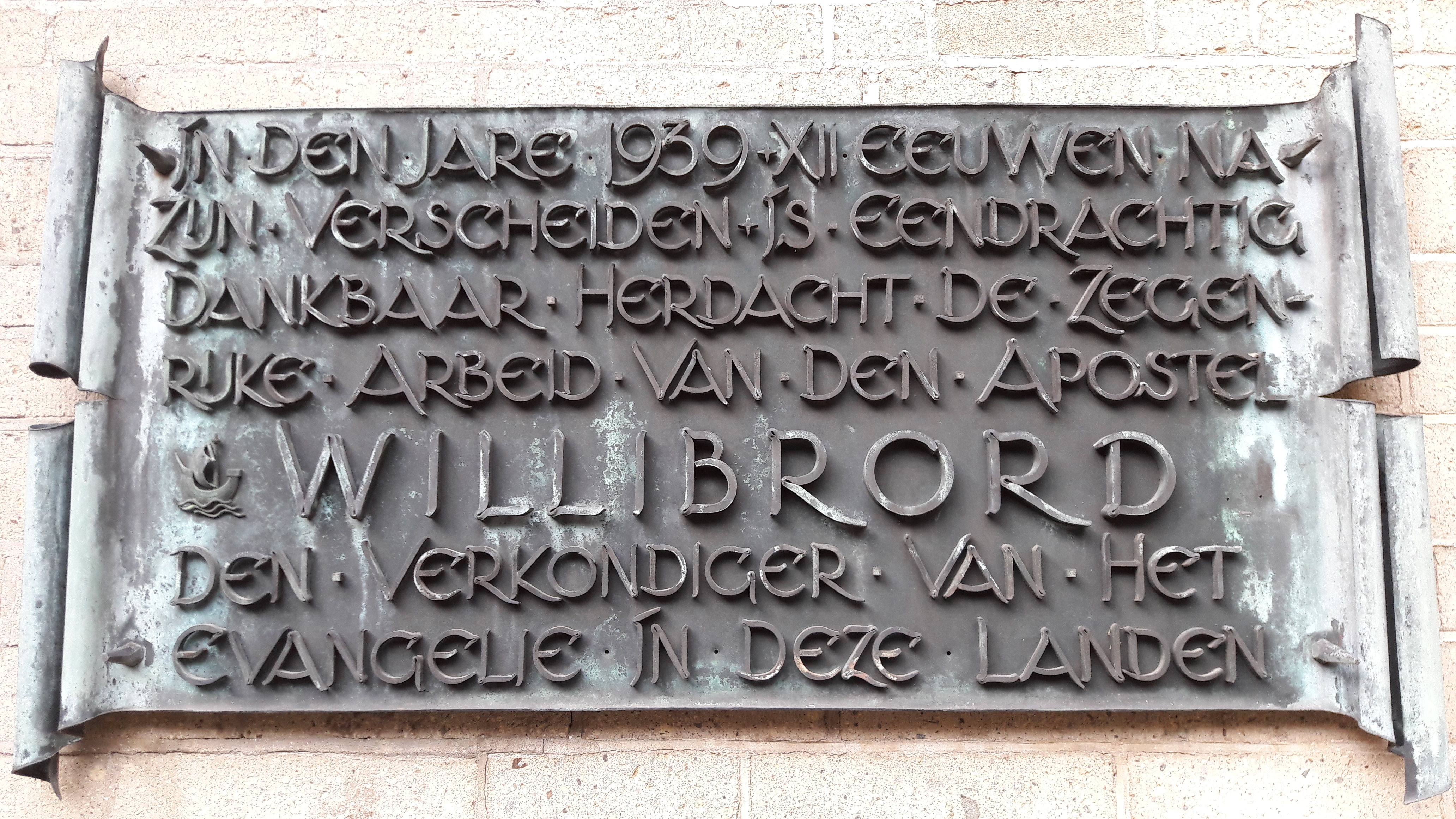 Utrecht Domkerk: plaque commemorating Willibrord the first bishop of Utrecht "In the year 1939 XII centuries after his death uniquely thanksgiving commemorated the blessed work of the Apostle Willibrord the preacher of the Gospel in these countries"